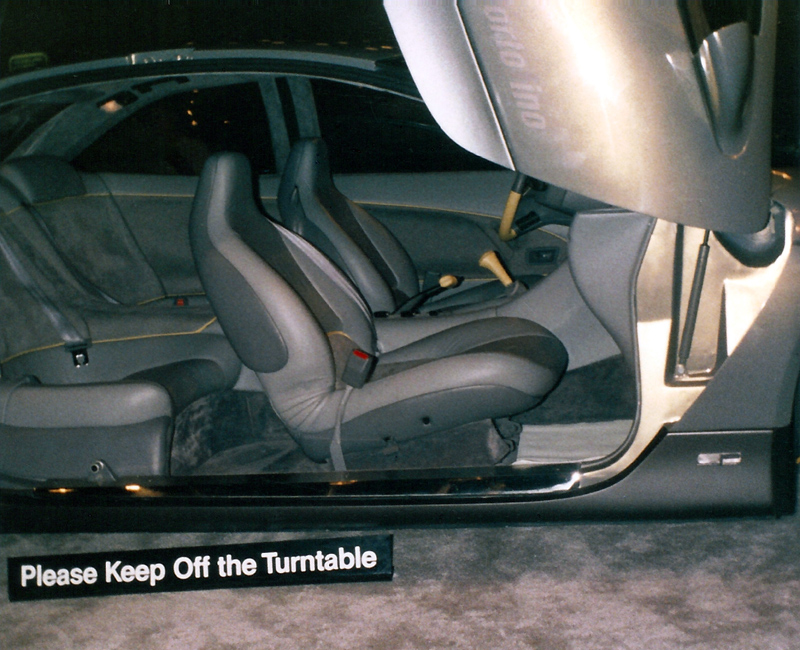 An interior photo of the Lamborghini Portofino concept car, taken at the 1986 Miami Auto Show, which was held at the Miami Beach Convention Center.